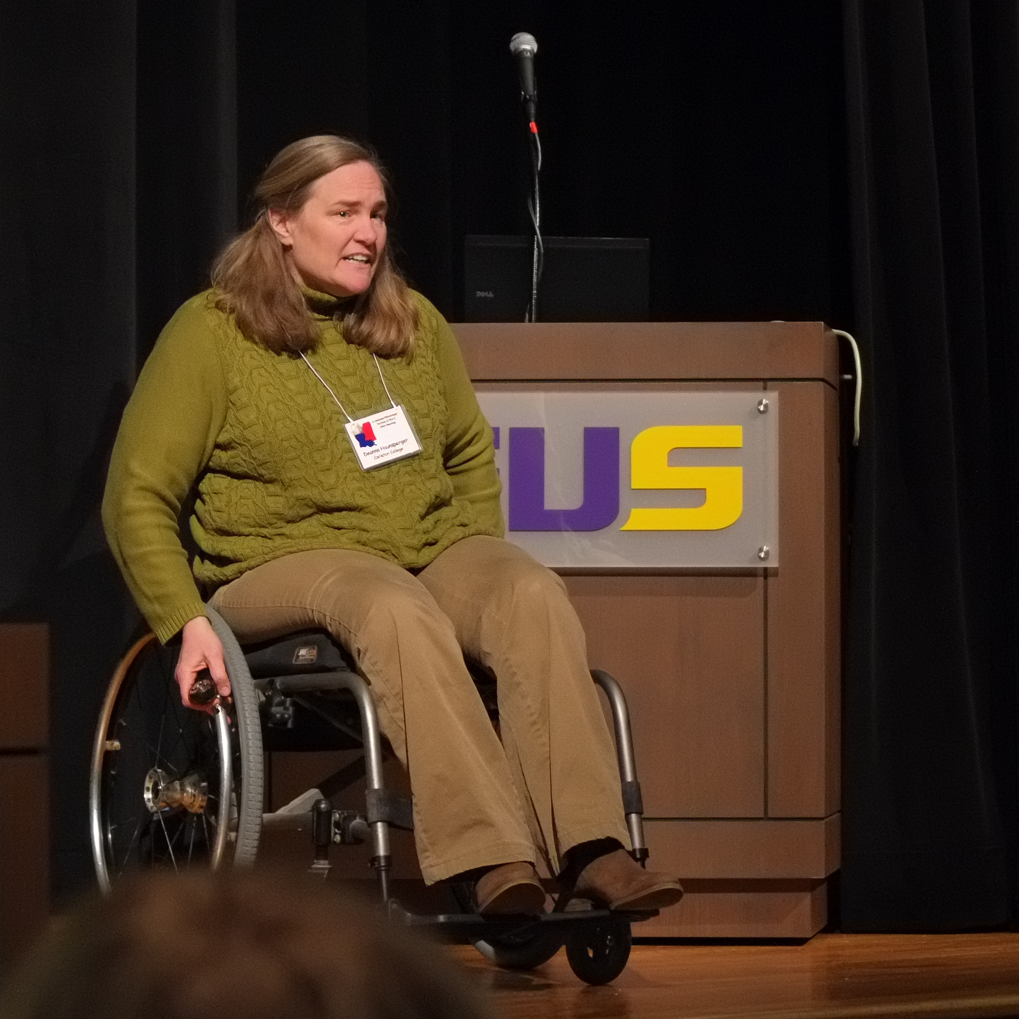 Deanna Haunsperger's talk: Voting Theory (2016 Meeting of the LA/MS Section of the MAA)